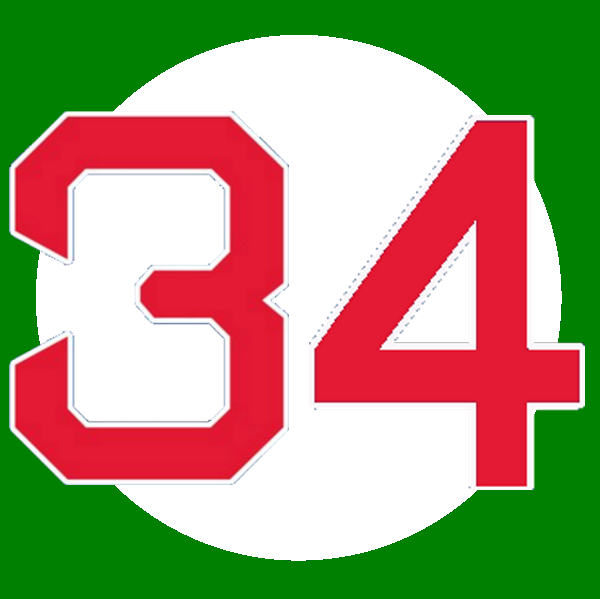 The Red Sox will retire No. 34 in David Ortiz's honor at a ceremony in 2017